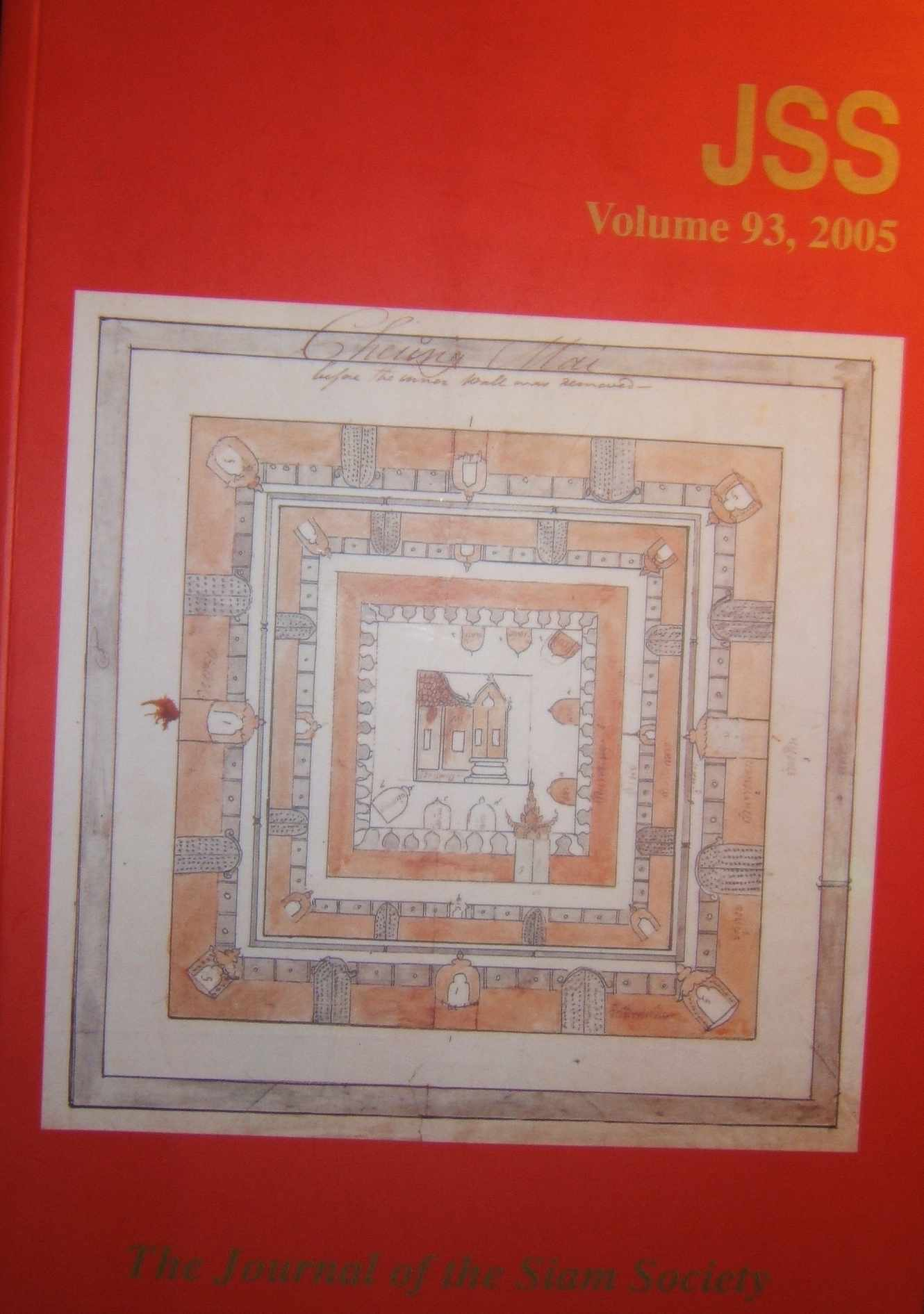 Journal of the Siam Society, 2005